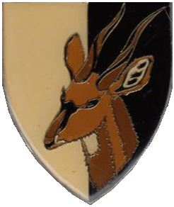 SADF era Umkomaas Commando shoulder flash